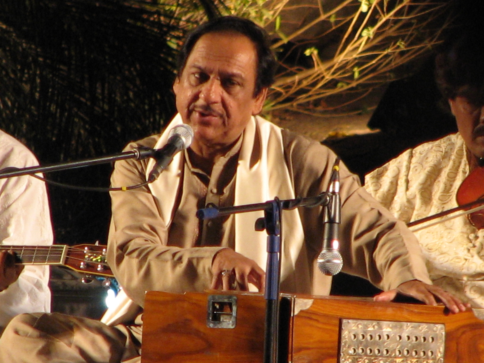 Ghulam Ali, picture taken with a Cannon Powershot S2 IS in a concert at Rock Heights, Hyderabad, on April 6, 2007